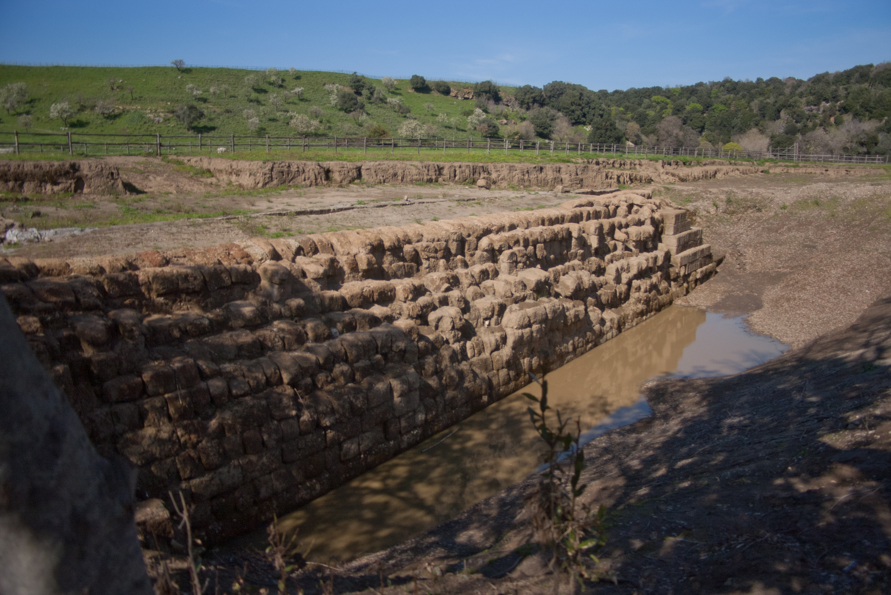 Etruscan quay in Vulci, Italy.